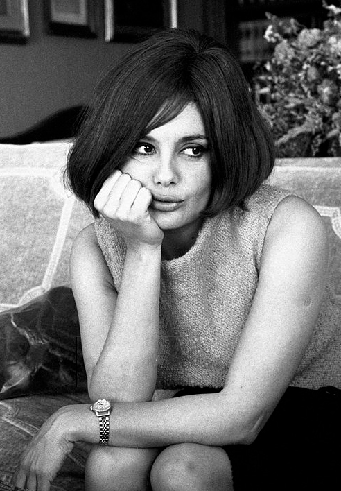 Italian actress Rossana Podestà (Carla Dora Podestà) posing in her house in Rome. Rome, 1965